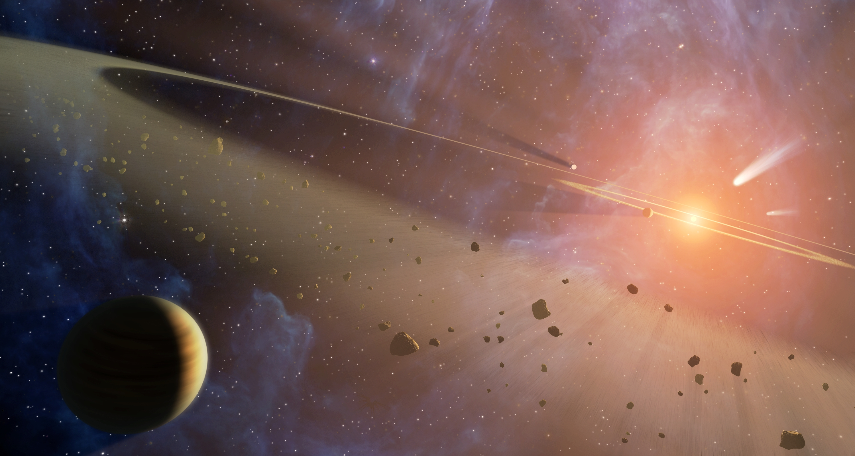 This artist's conception shows the closest known planetary system to our own, called Epsilon Eridani. Observations from NASA's Spitzer Space Telescope show that the system hosts two asteroid belts, in addition to previously identified candidate planets and an outer comet ring. Epsilon Eridani is located about 10 light-years away in the constellation Eridanus. It is visible in the night skies with the naked eye. The system's inner asteroid belt appears as the yellowish ring around the star, while the outer asteroid belt is in the foreground. The outermost comet ring is too far out to be seen in this view, but comets originating from it are shown in the upper right corner. Astronomers think that each of Epsilon Eridani's asteroid belts could have a planet orbiting just outside it, shepherding its rocky debris into a ring in the same way that Jupiter helps keep our asteroid belt confined. The planet near the inner belt was previously identified in 2000 via the radial velocity, or "star wobble," technique, while the planet near the outer belt was inferred when Spitzer discovered the belt. The inner belt orbits at a distance of about 3 astronomical units from its star —or about the same position as the asteroid belt in our own solar system (an astronomical unit is the distance between Earth and our sun). The second asteroid belt lies at about 20 astronomical units from the star, or a position comparable to Uranus in our solar system. The outer comet ring orbits from 35 to 90 astronomical units from the star; our solar system's analogous Kuiper Belt extends from about 30 to 50 astronomical units from the sun.